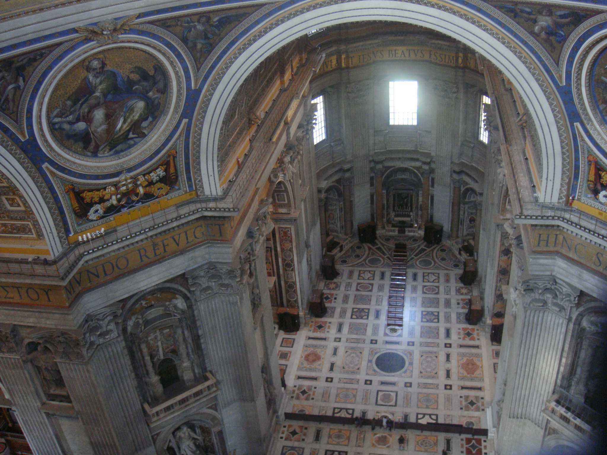 00120 Vatican City